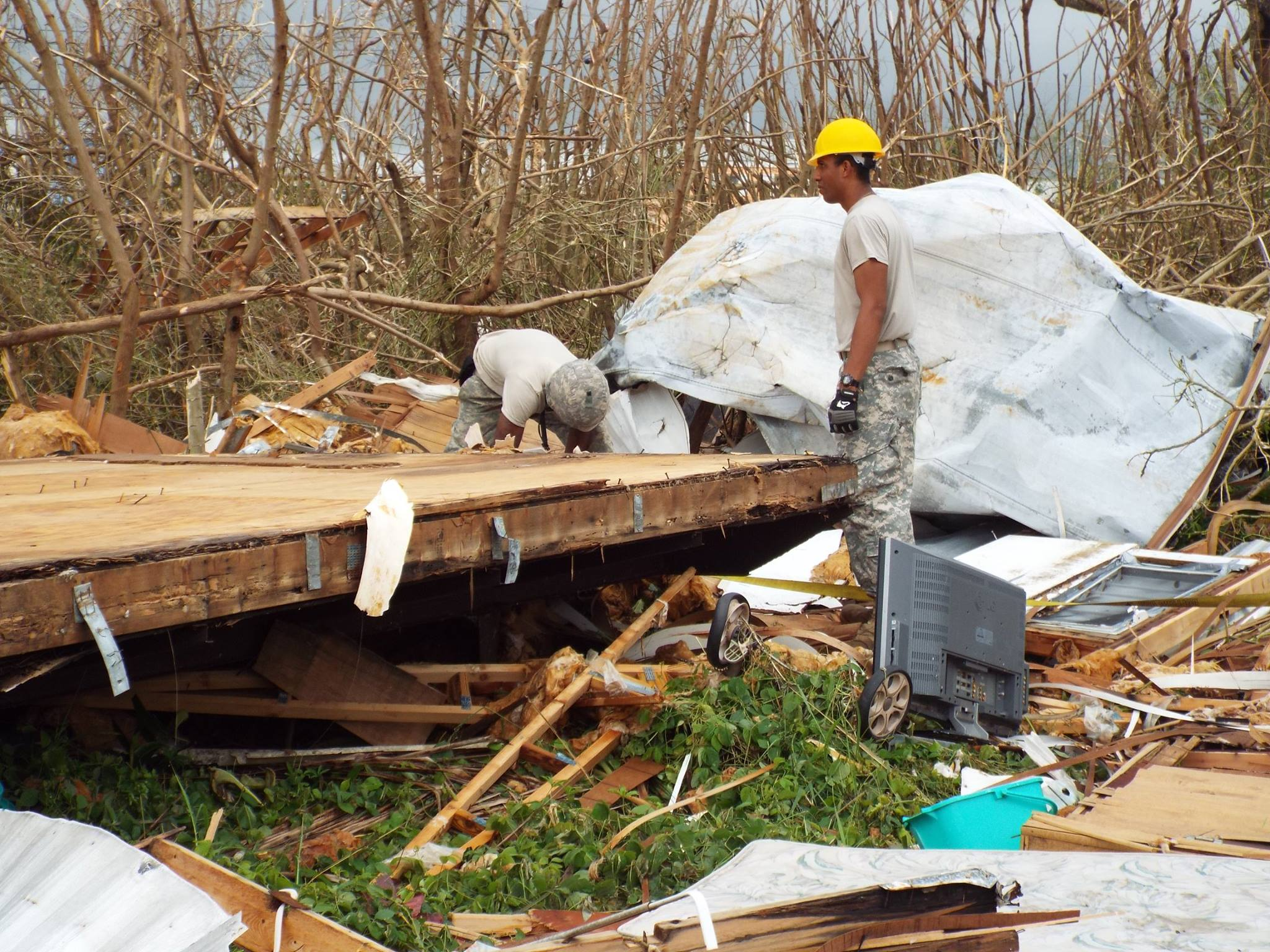 Virgin Islands National Guard members spent Thursday, Sept. 21, 2017, the day after Hurricane Maria made landfall, clearing roads and manning traffic routes around St. Croix. (Courtesy of the Virgin Islands National Guard)